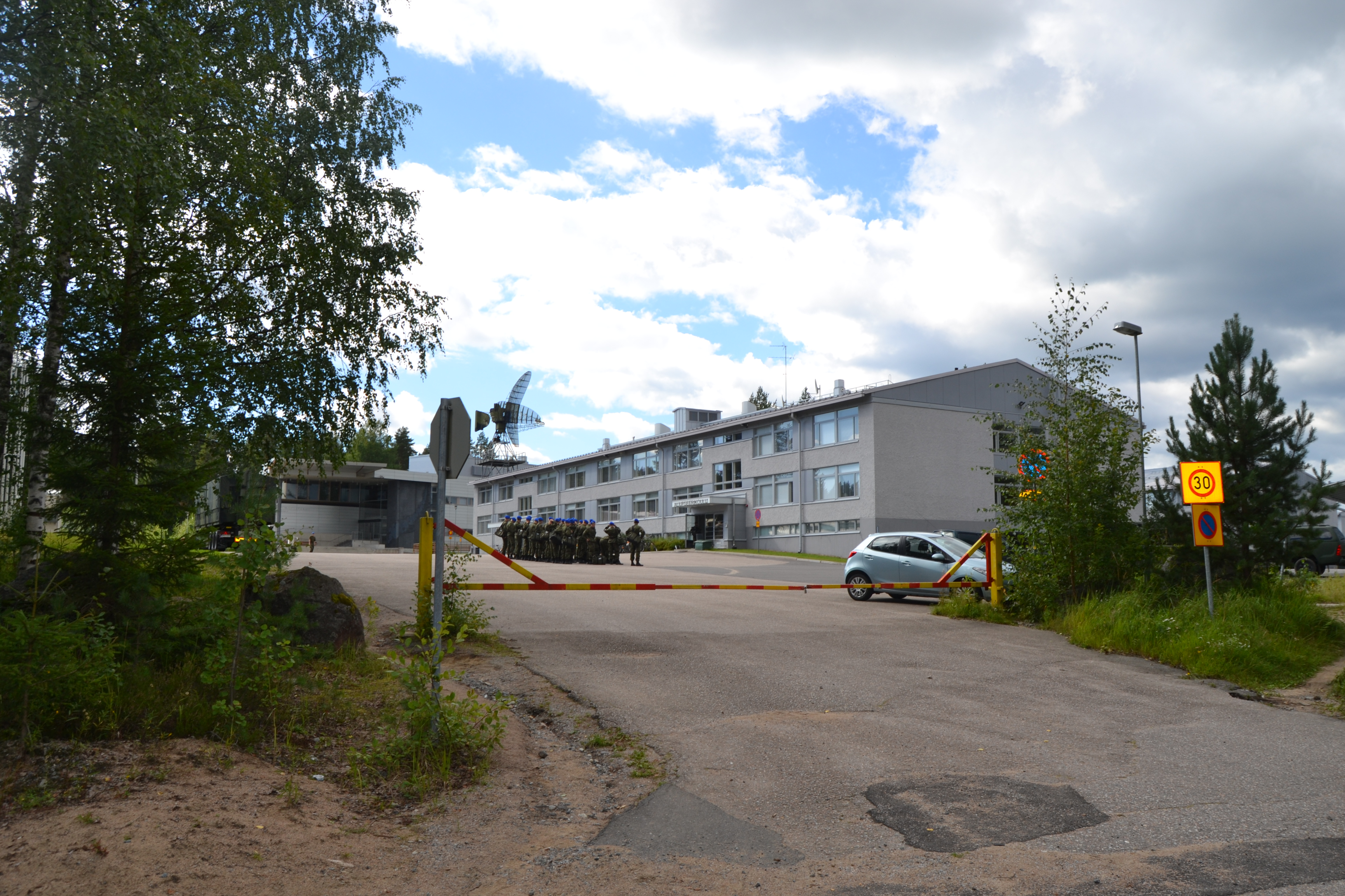 Luonetjärvi garrison in Tikkakoski, Jyväskylä, Finland